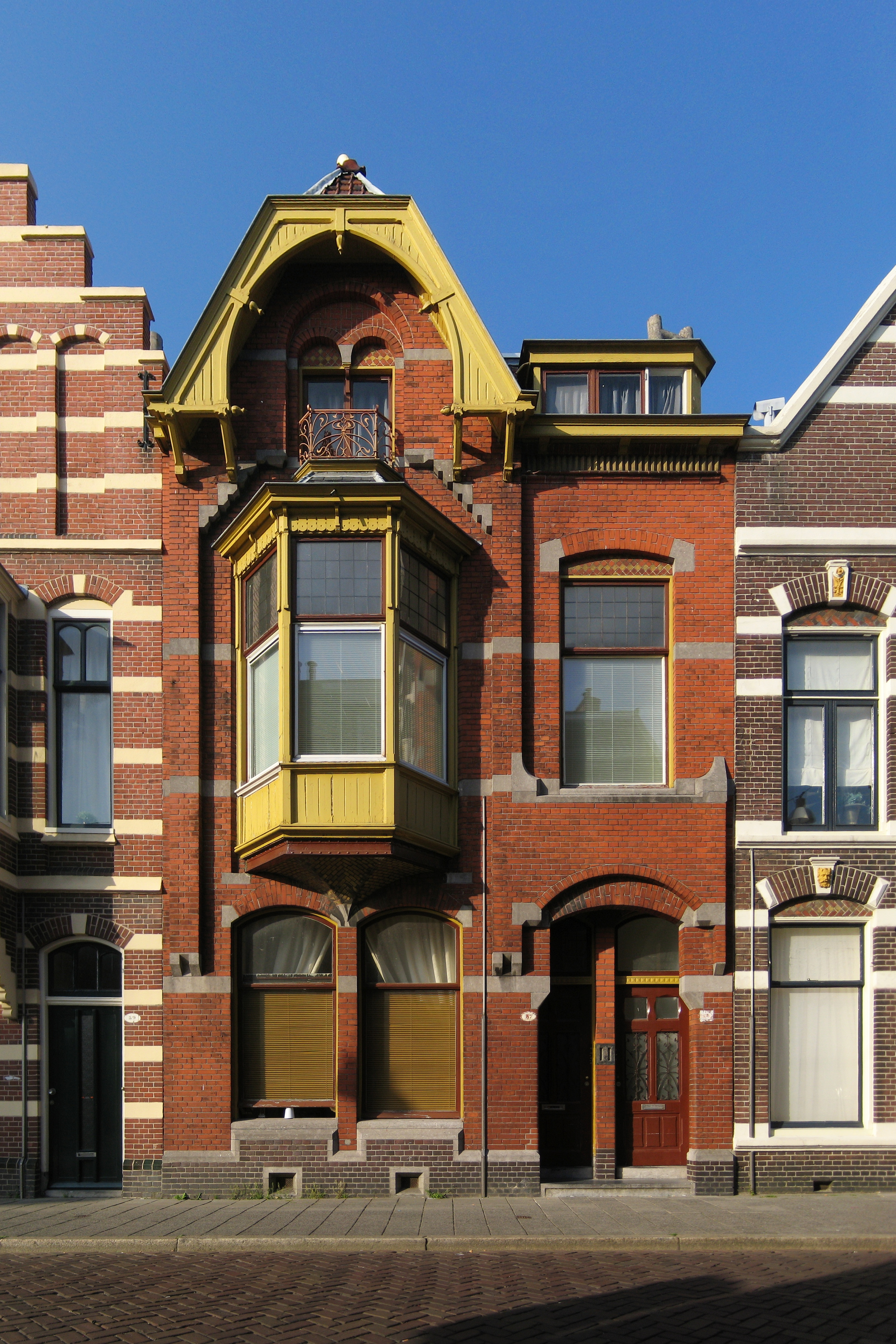 House (1903) in the Dutch city of Groningen.